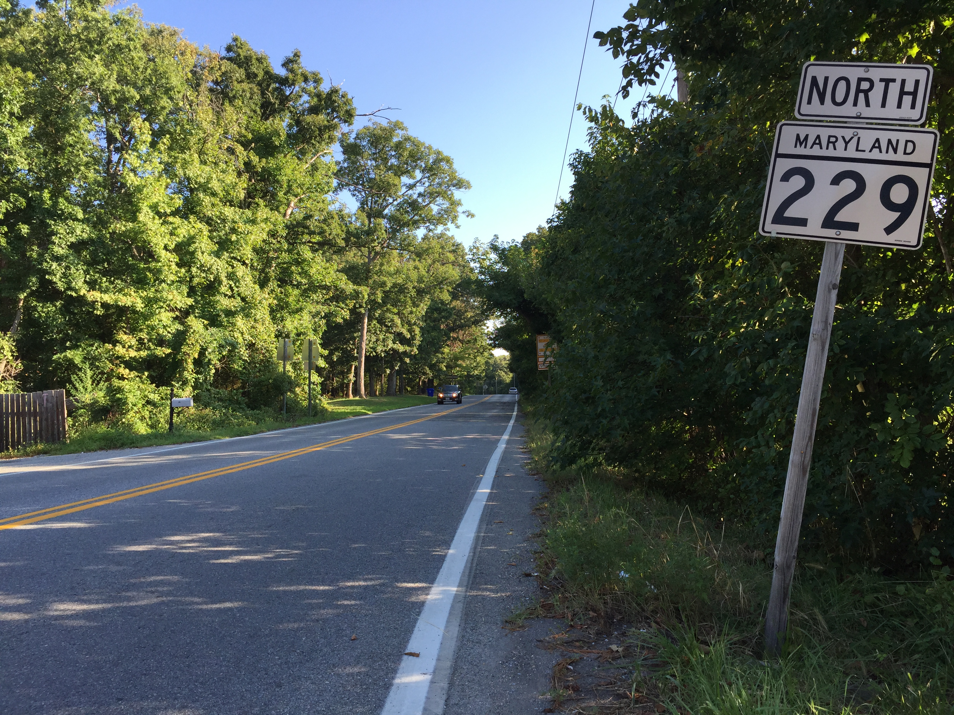 View north along Maryland State Route 229 (Bensville Road) at Maryland State Route 227 (Marshall Corner Road) in Bennsville, Charles County, Maryland